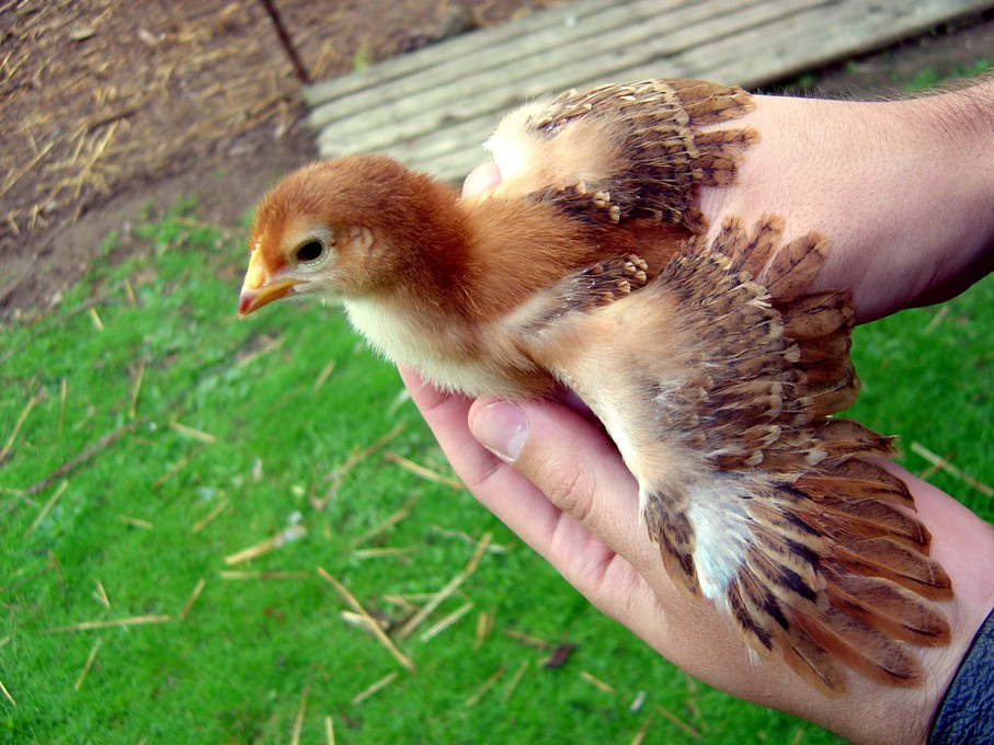 A nine day old Rhode Island Red chick